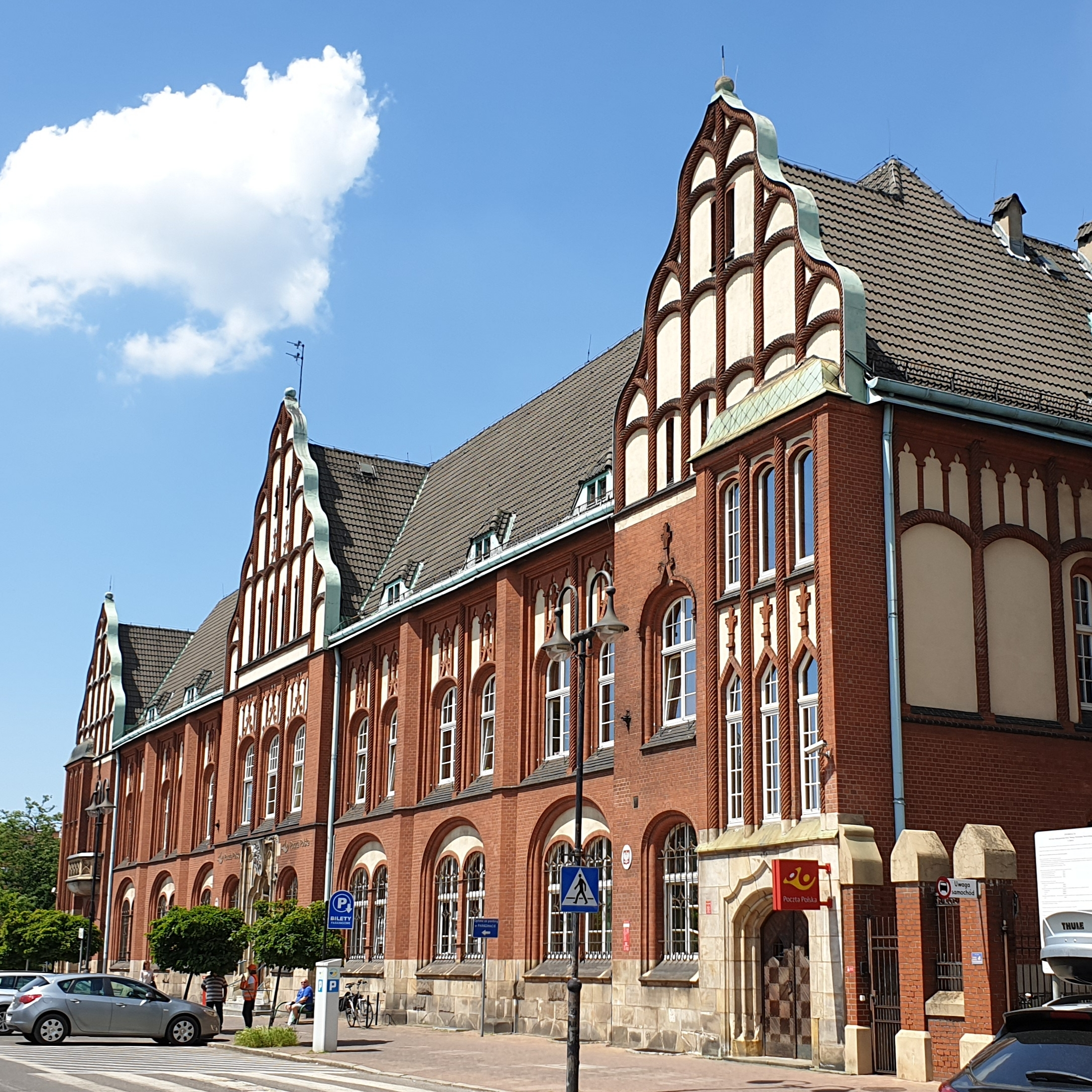 Main post office in Zabrze, Poland, June 2019